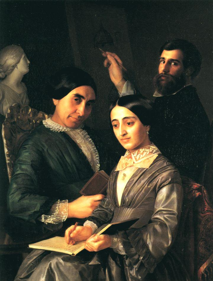 The Artists Family, exhibited at the National Gallery, Greece